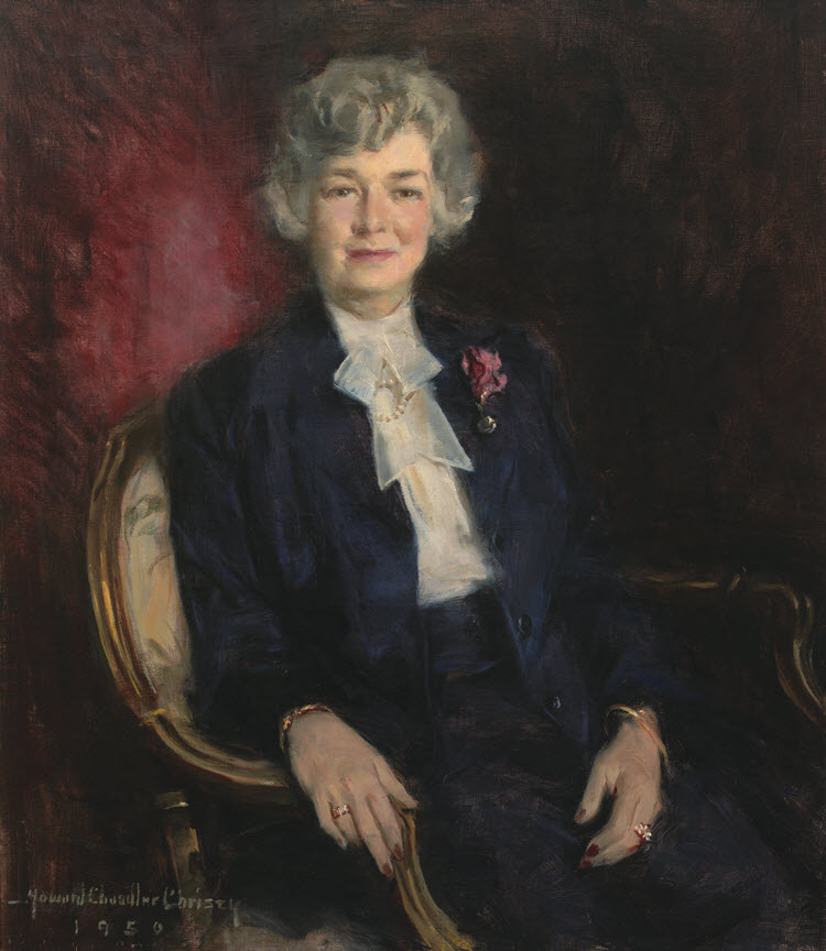 Portrait of Congresswoman Edith Nourse Rogers, Collection of U.S. House of Representatives, Office of the Clerk of the U.S. House of Representatives